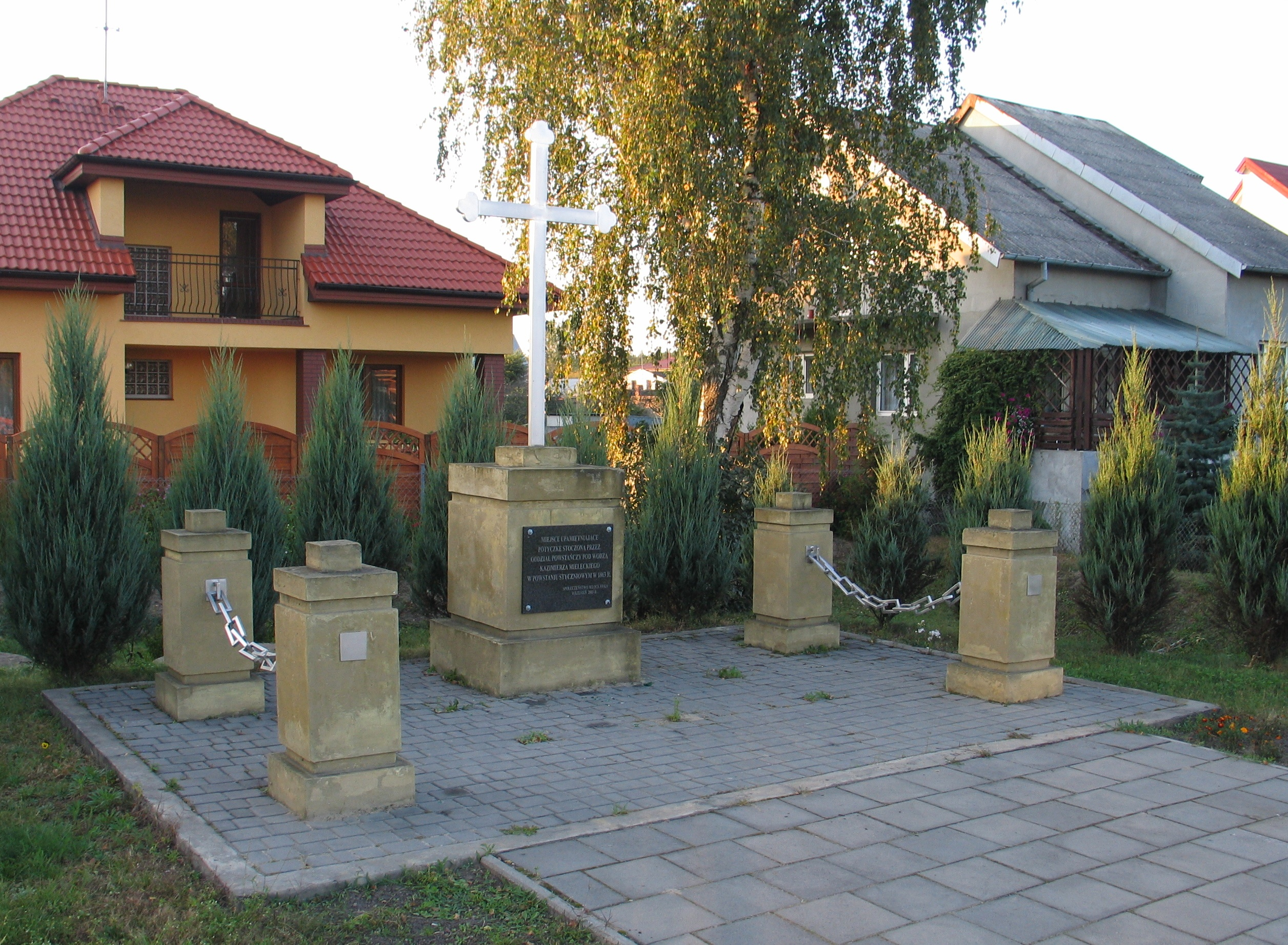 Mielęcin – the monument